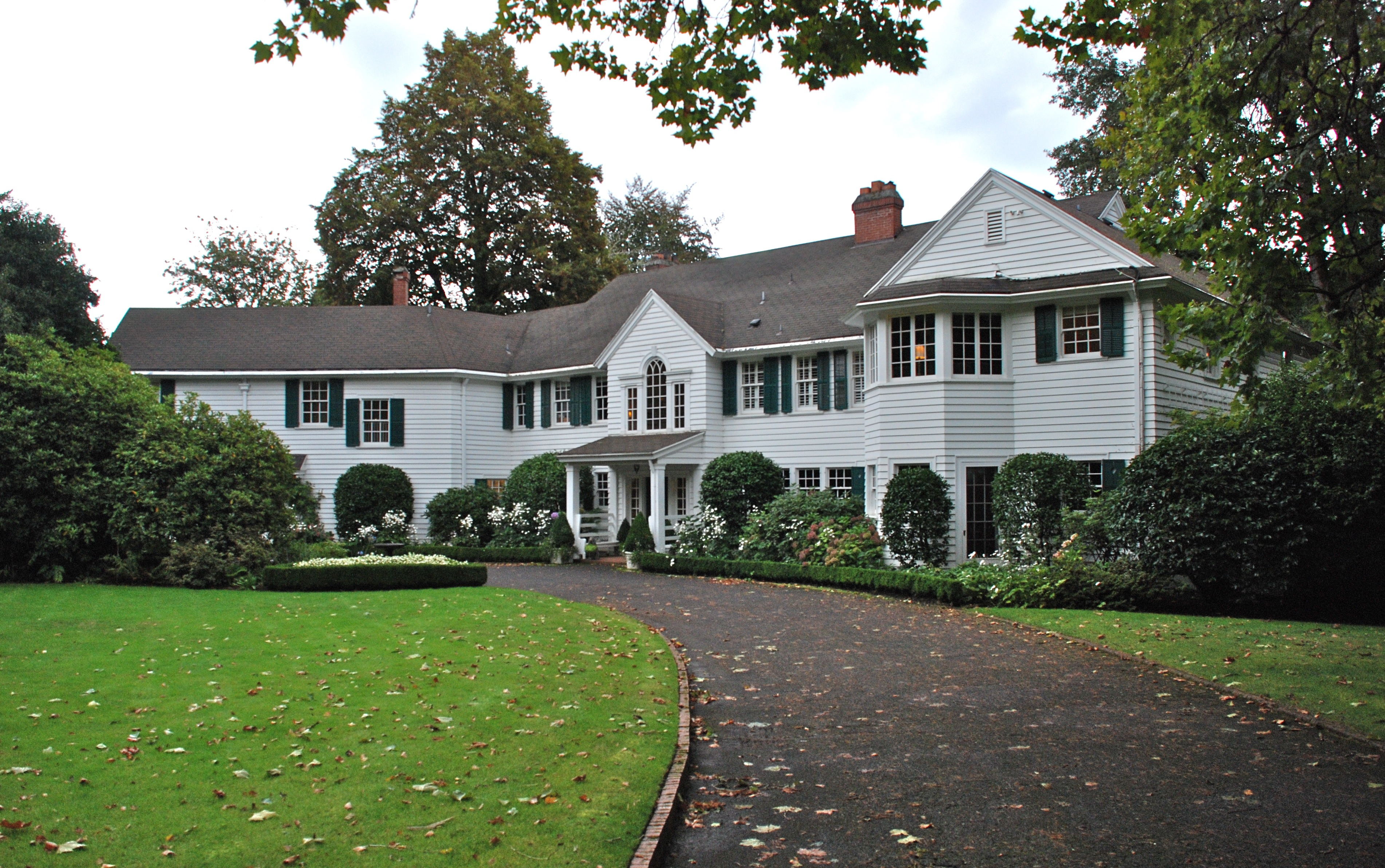 The Elliott R. Corbett House, located in the Portland (Oregon) metropolitan area and just south of the city of Portland proper, is listed on the U.S. National Register of Historic Places.